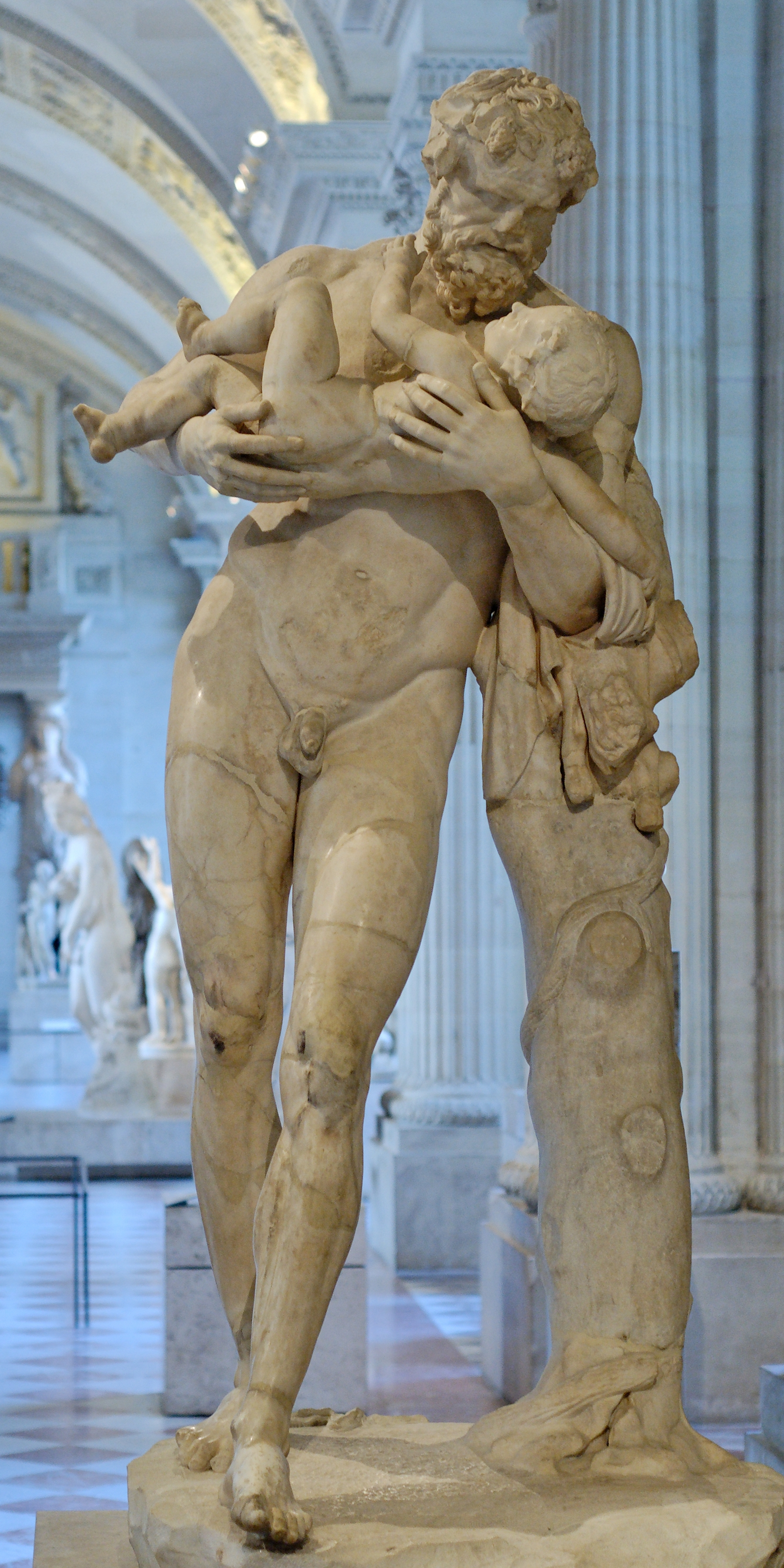 Silenus holding the child Dionysos. Marble, Roman copy of the 1st–2nd century CE after a Greek original of the late 4th century BC. From the Horti Sallustiani in Rome, 16th century.